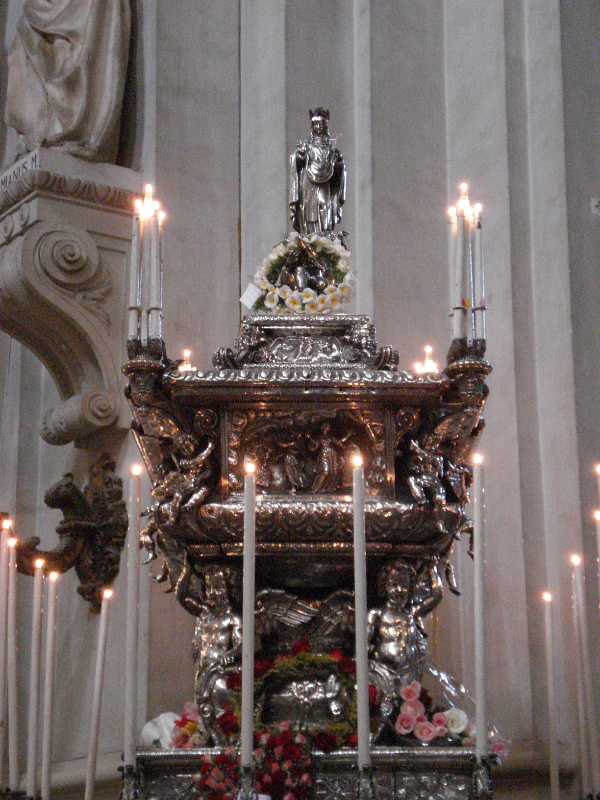 St Rosalia's relics